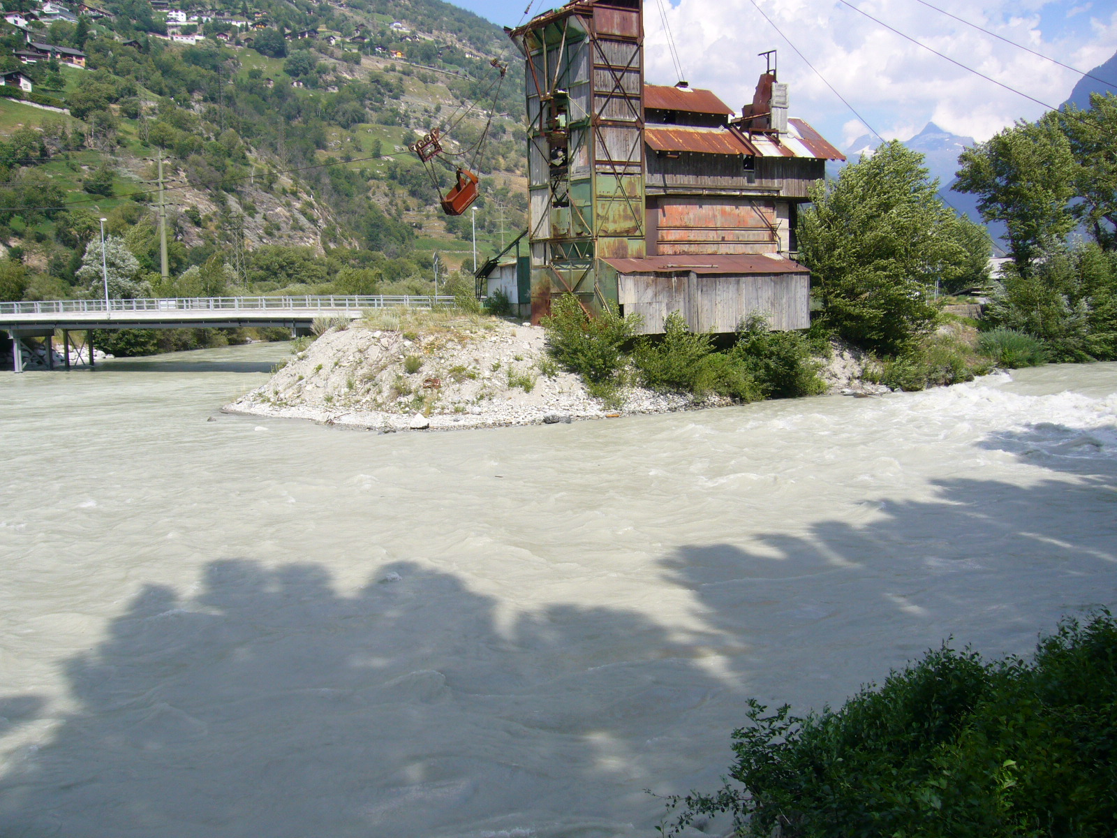 The River Vispa flowing in the River Rhone near Visp, Canton of Vallais, Switzerland. Picture taken by Peter Berger, July 16, 2006.